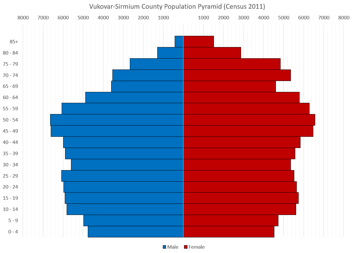 Population pyramid of Vukovar-Sirmium County. Version in English. Data from 2011 Census; available at